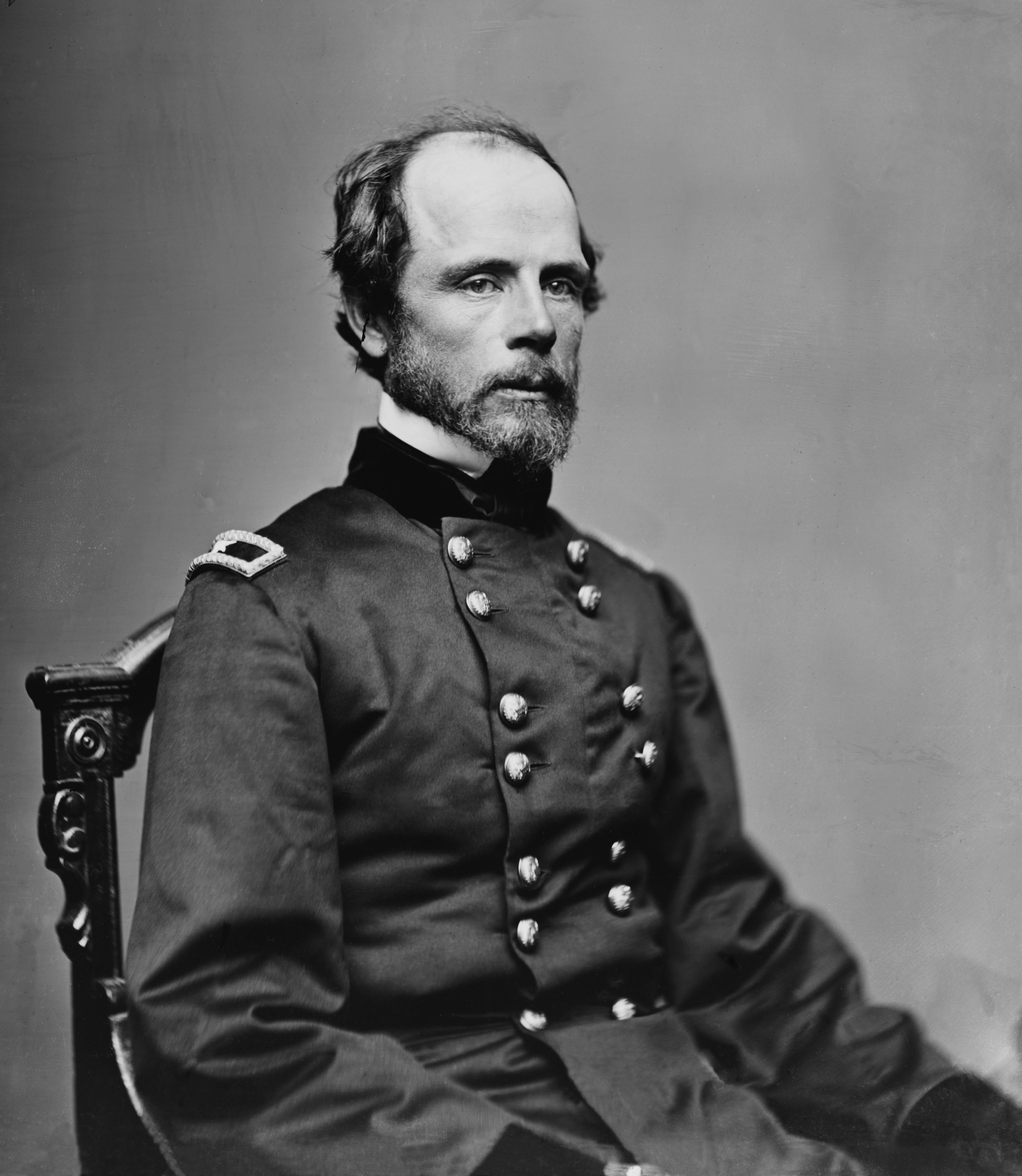 Darius N. Couch (1822-1897). Library of Congress description: "Gen. D.N. Couch, U.S.A."